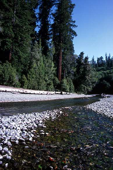 Redwood creek in Redwood National Park. At the shore of this little creek the tallest trees on earth are growing